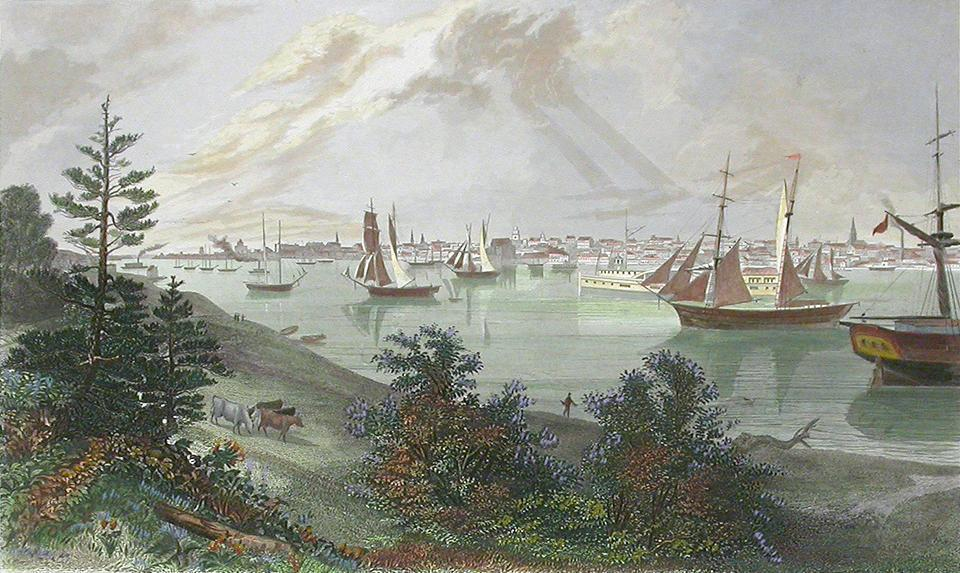 Steel engraving The City of Detroit (from Canada Shore)